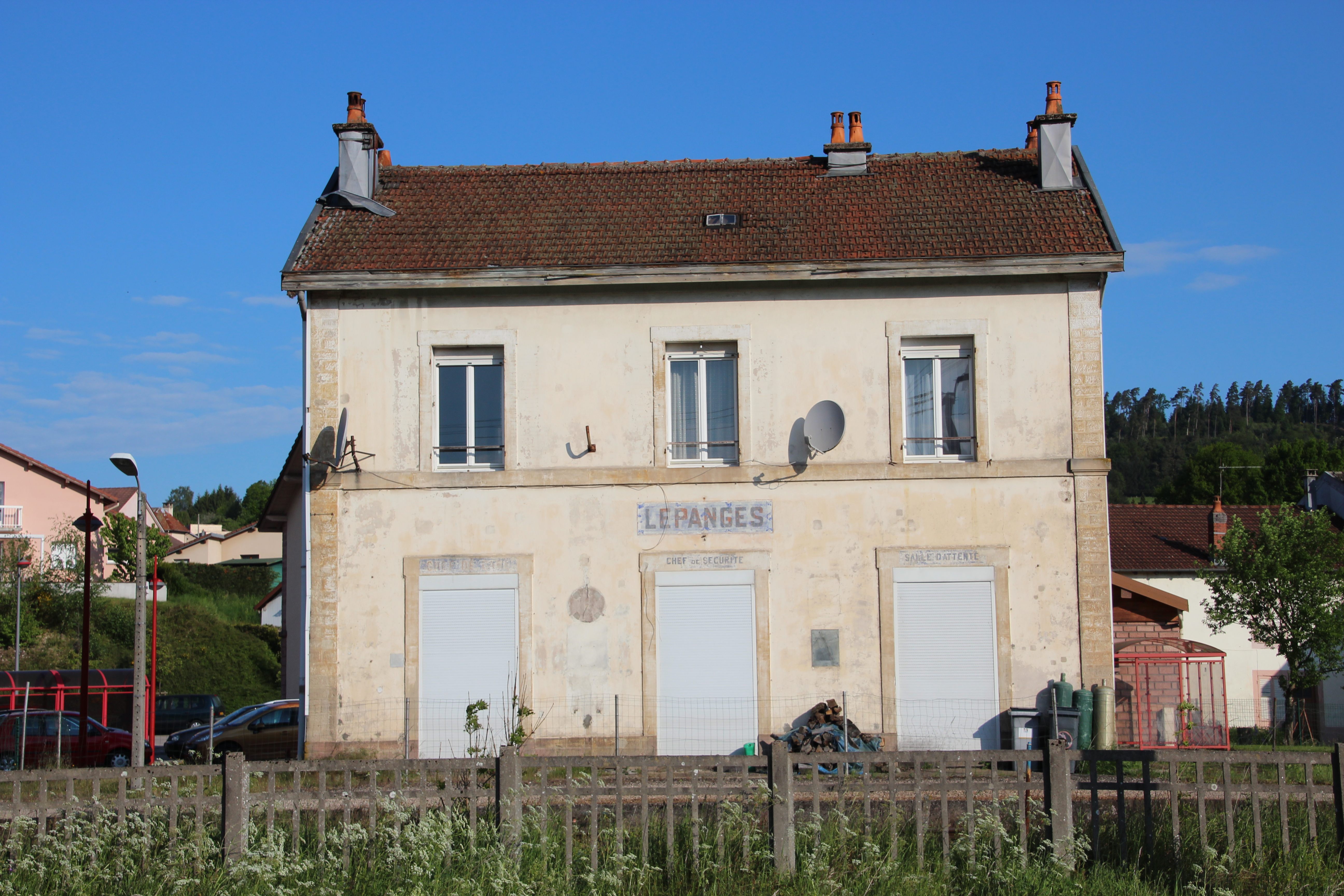 Train station of Lépanges-sur-Vologne, France. Object location48° 10′ 22″ N, 6° 40′ 19.85″ E